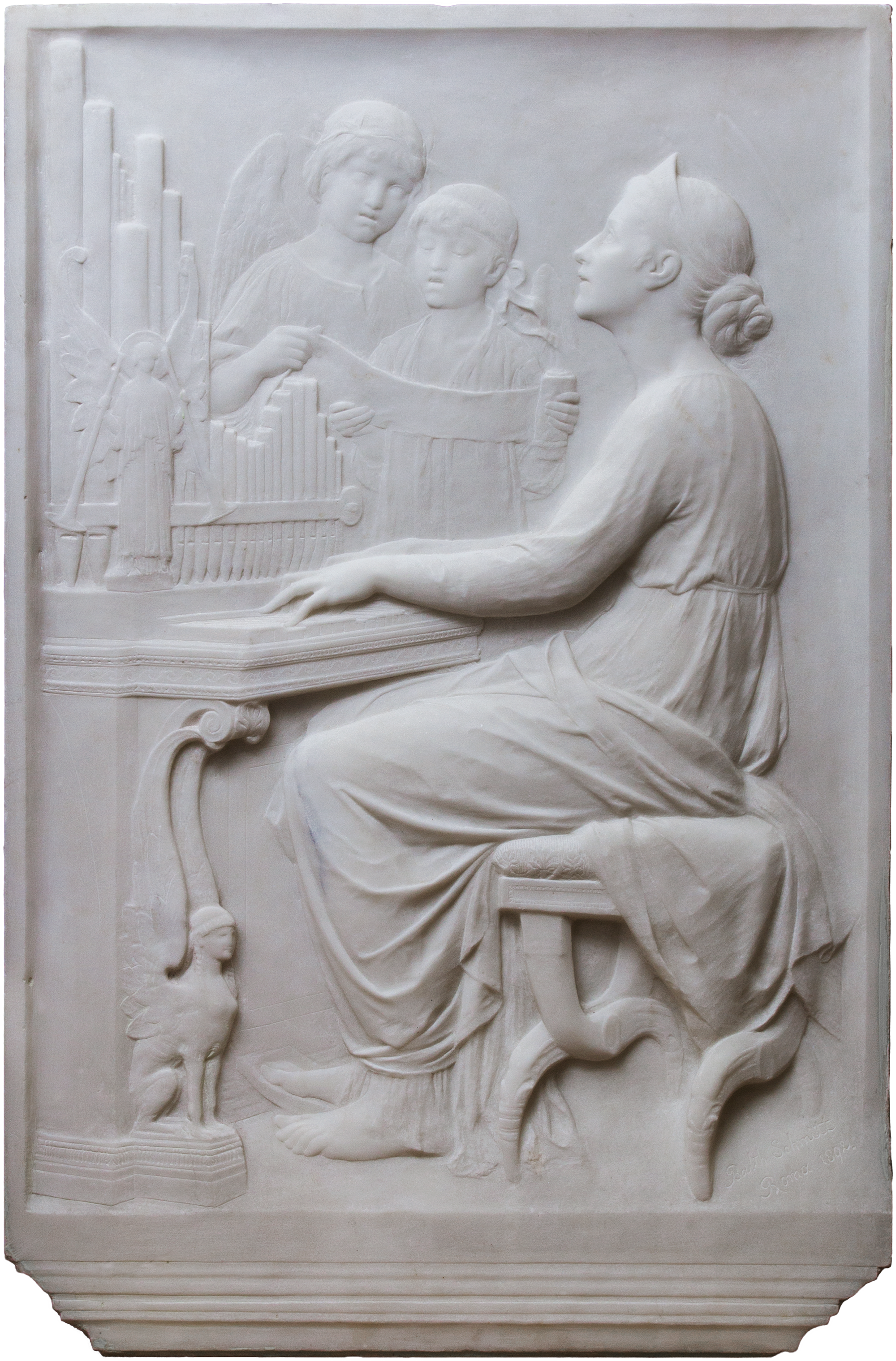 Marble Bas-relief of the Saint Celila of Rome by Balthasar Schmitt in Rome 1892.